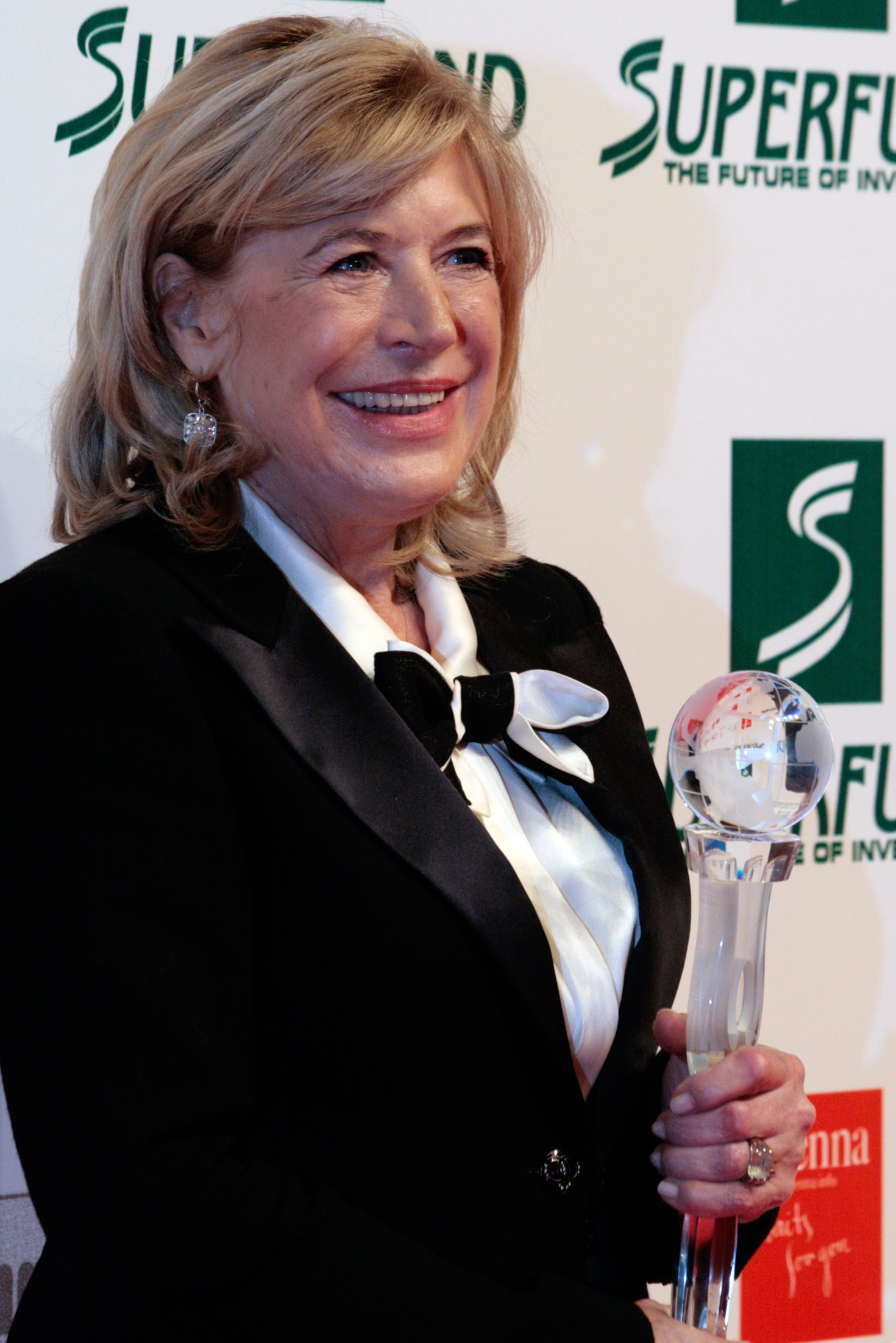 Marianne Faithfull at the Women's World Award 2009 (Wiener Stadthalle, Vienna, Austria).